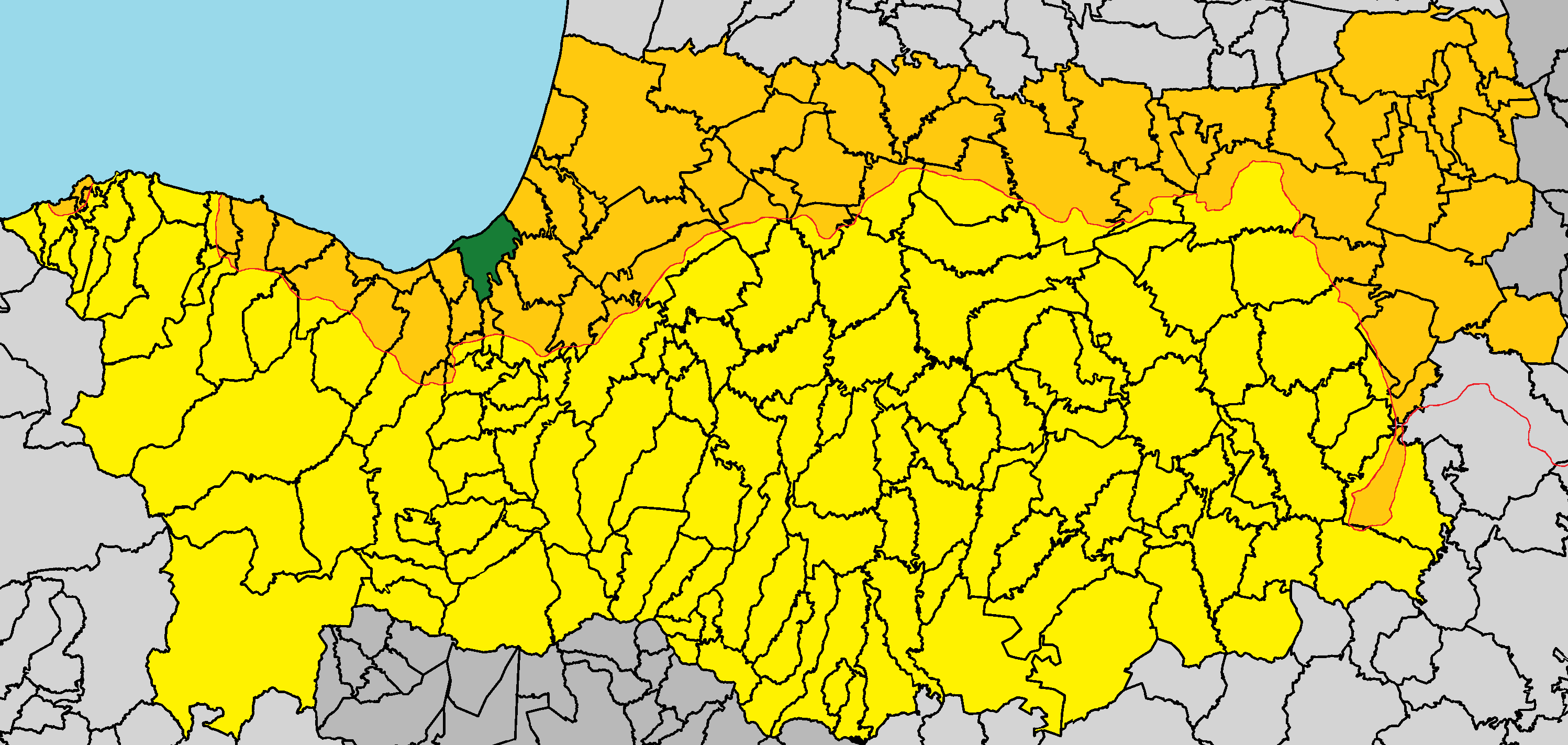 Pentageia in Nicosia District (de jure).